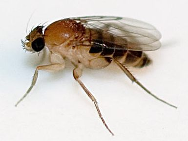 A scuttle fly Megaselia scalaris. The specimen was captured in Henryetta, Okmulgee County (Oklahoma, USA).